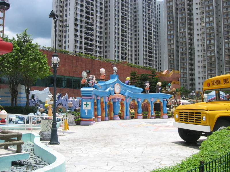 HK Snoopy World Theme Park overview